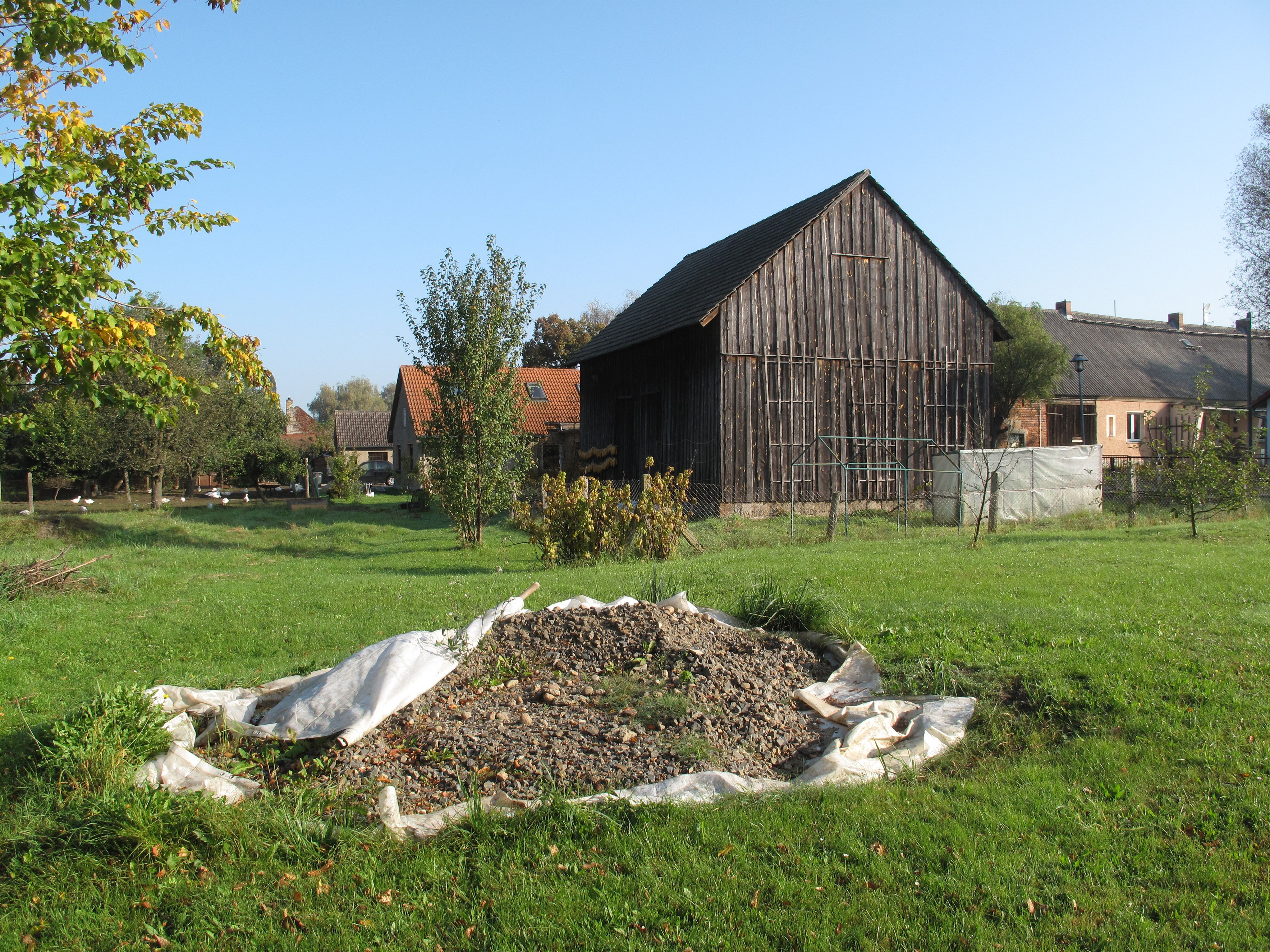 Barn in the village Falkenberg, a part (german: Ortsteil) of the municipality Tauche in the District Oder-Spree, Brandenburg, Germany.